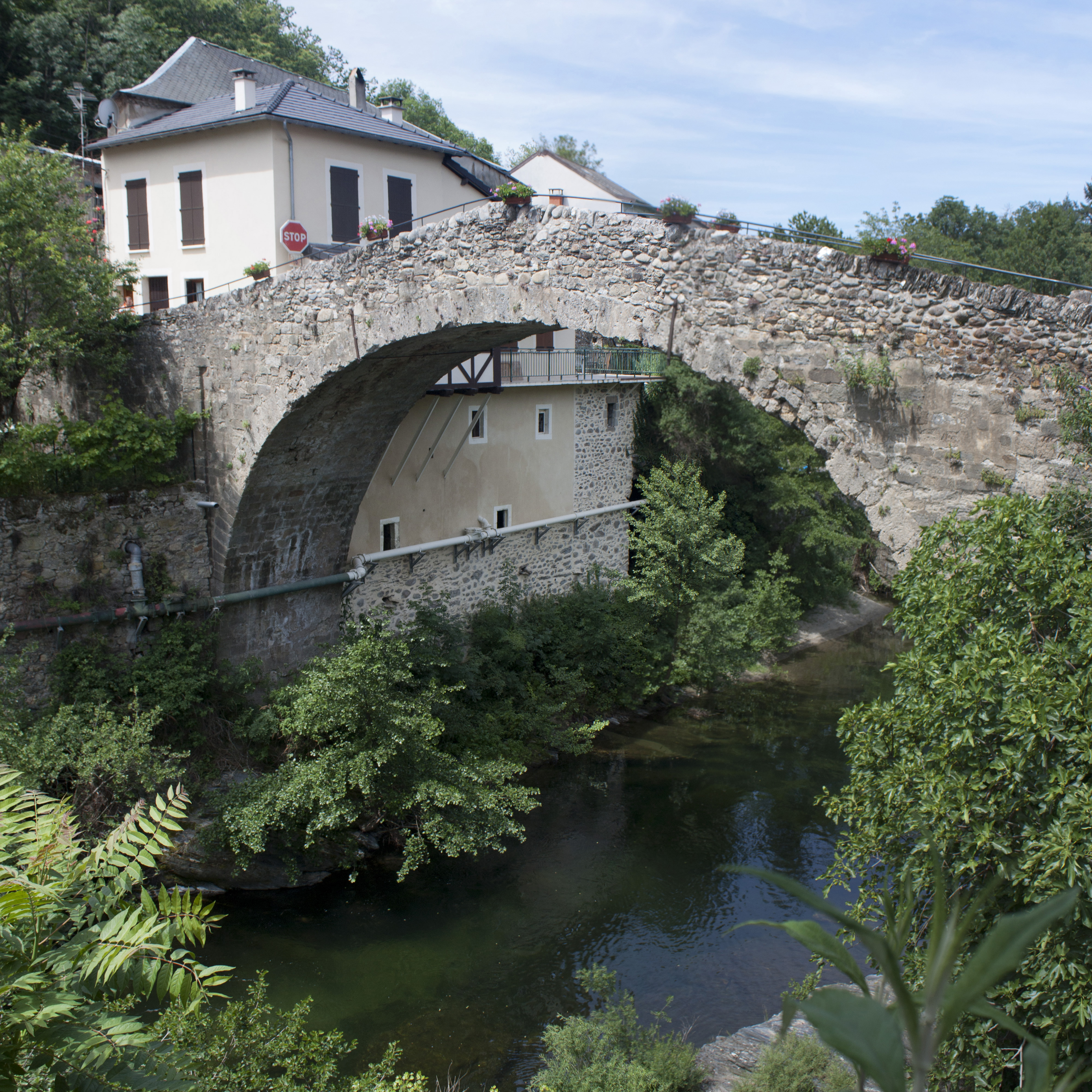 Roman bridge upon the Dourbie river.